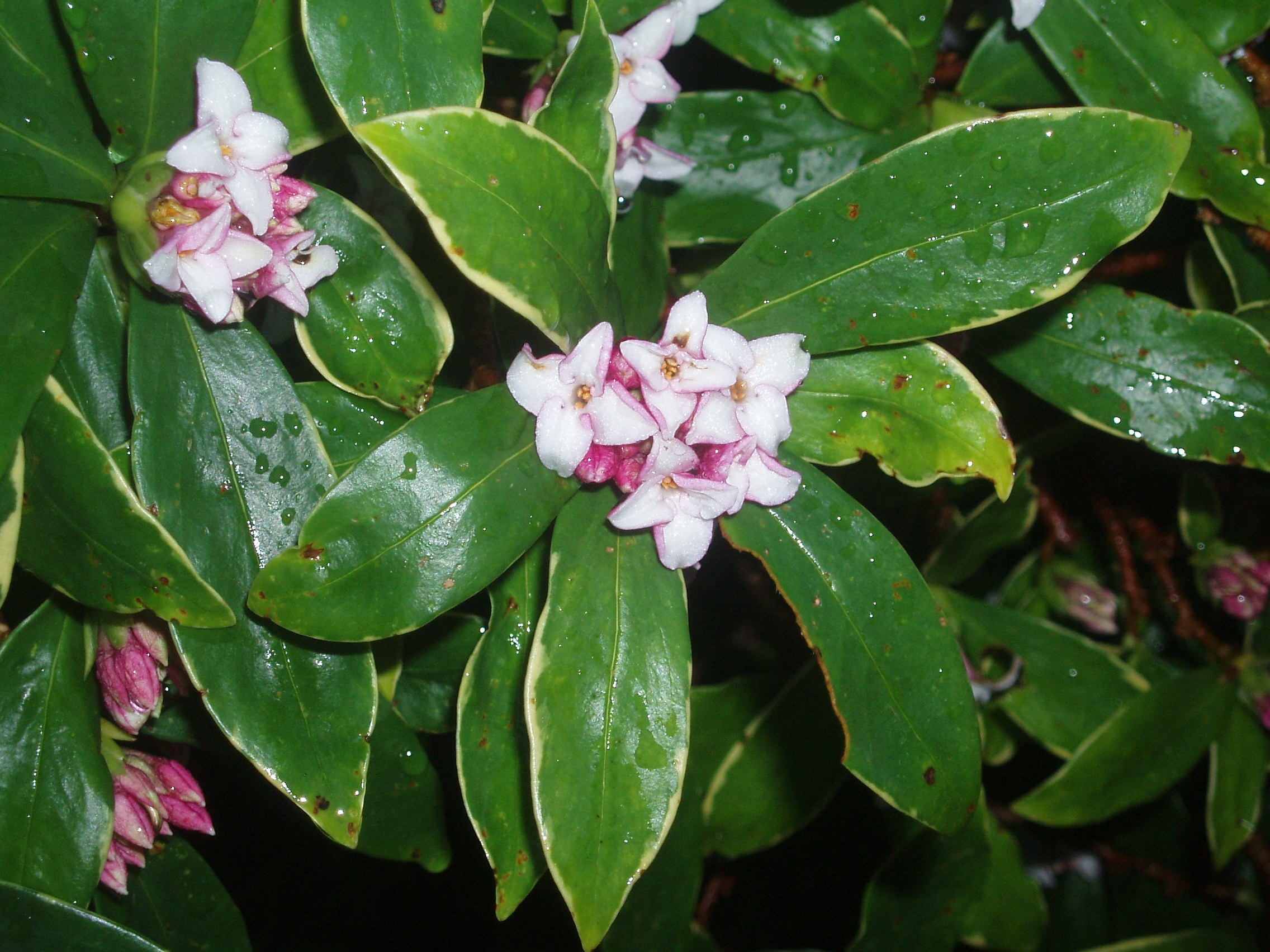 Daphne Odora in flower